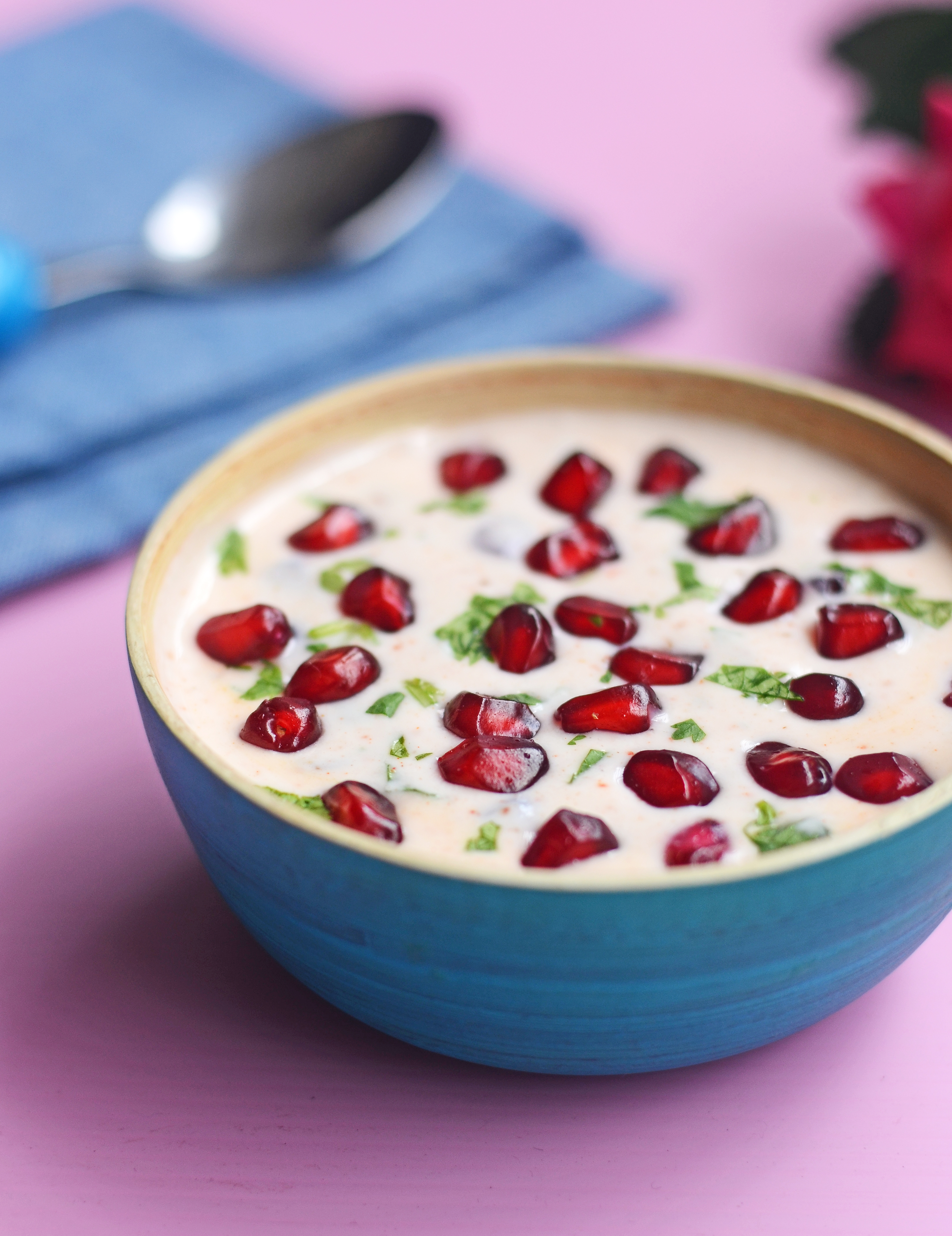 This is a mild seasoned side dish that goes well with spicy pulaos.